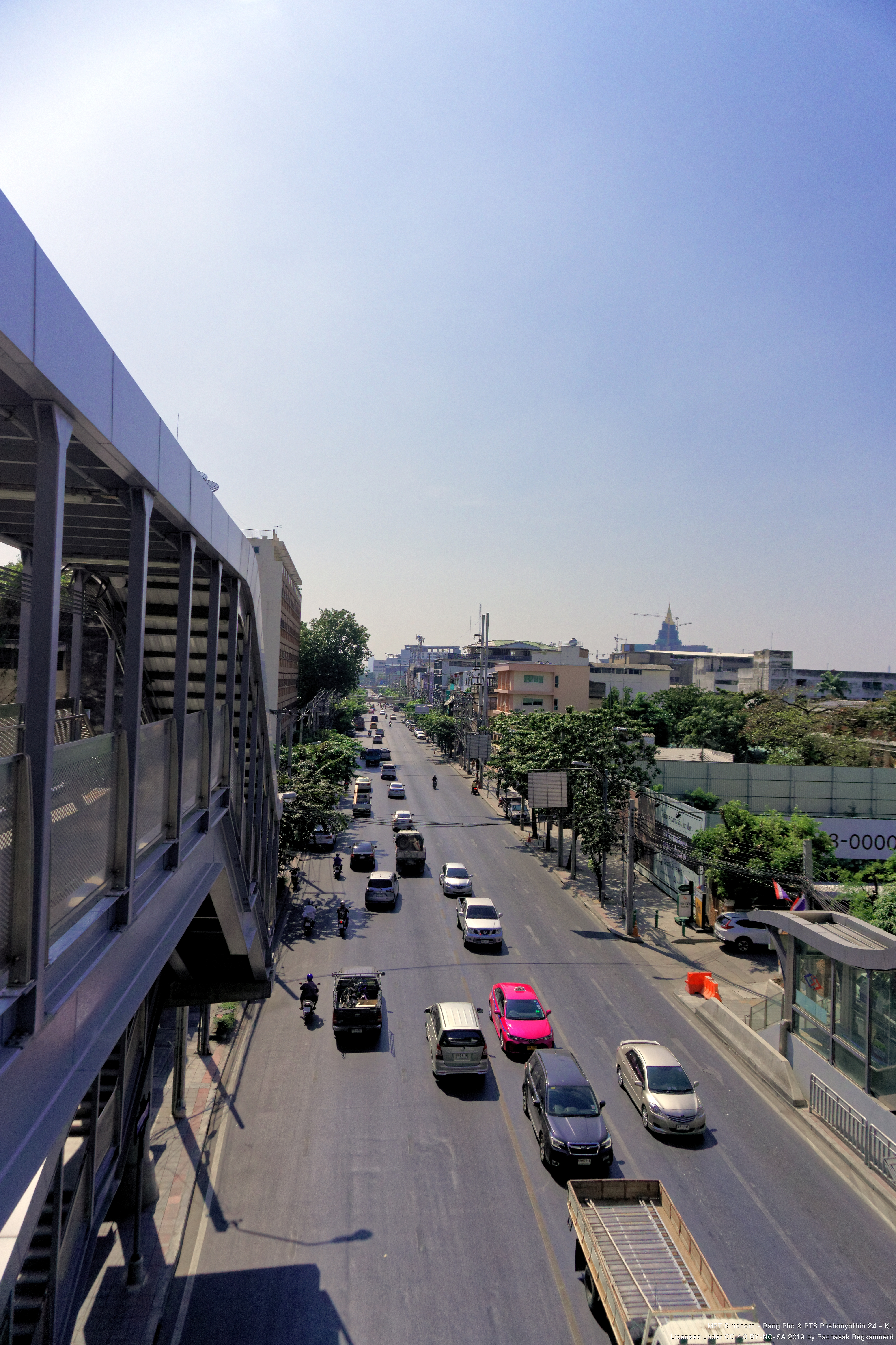 MRT Bang Pho - Pracha Rat Sai 1 road